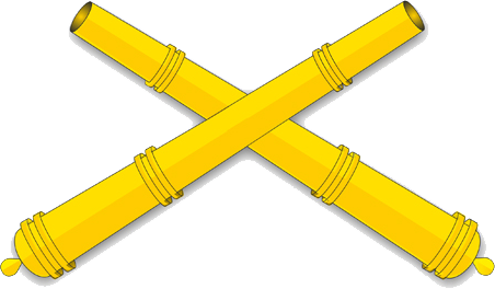 Collar insignia of the Russian armed forces, here emblem branch of service – “Rocket forces and artillery” with transparent background.